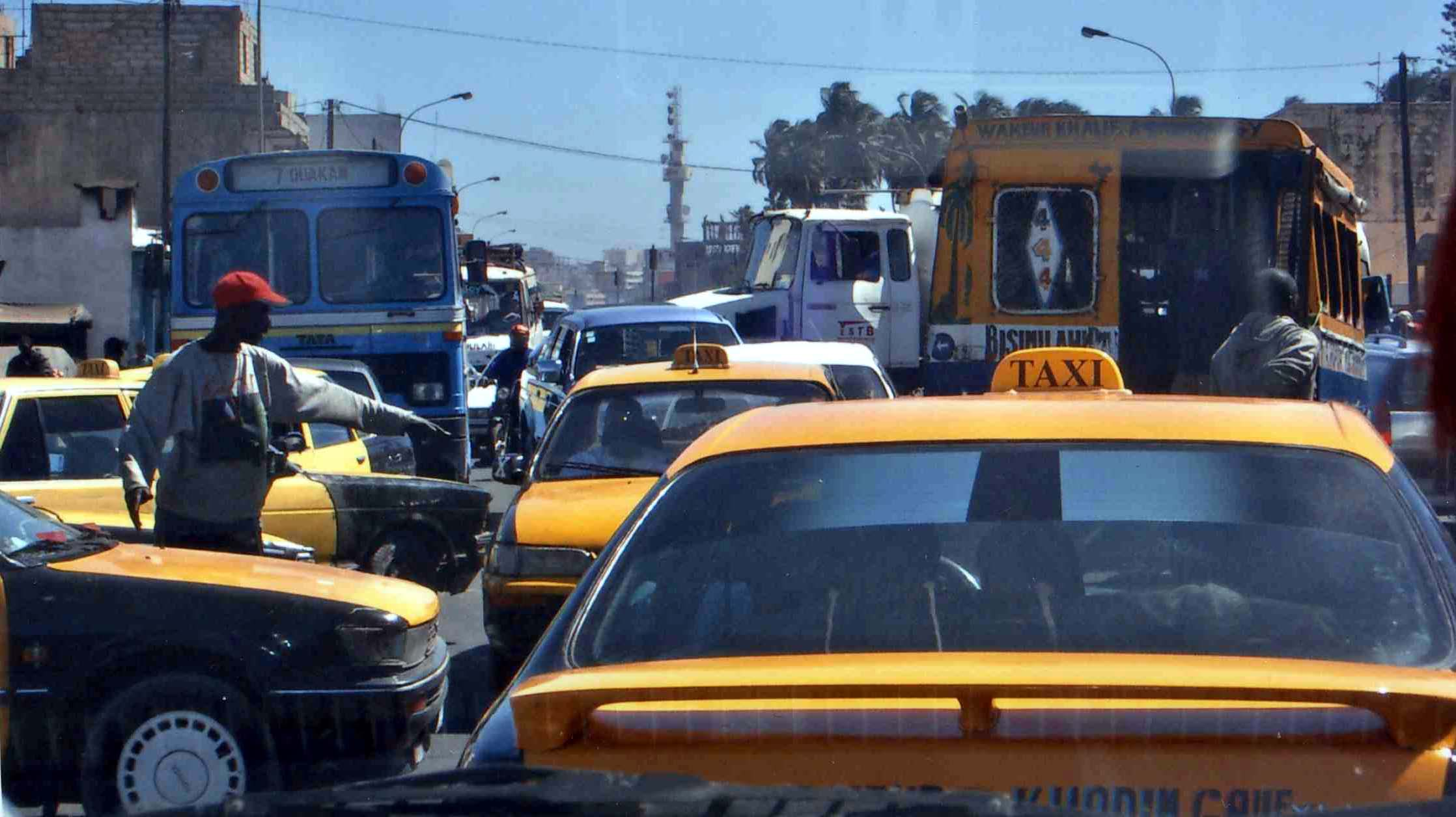 Traffic jam in Dakar, Senegal ... common habitude